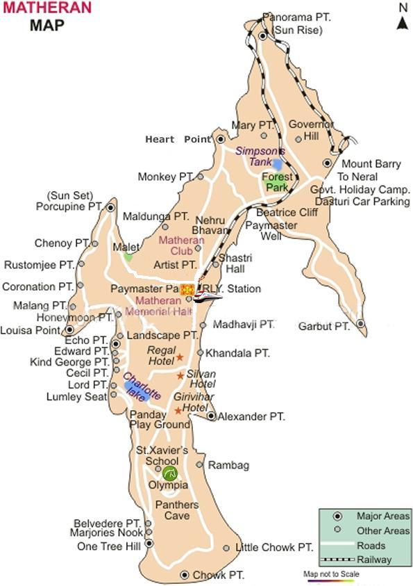 Detailed Map of Matheran